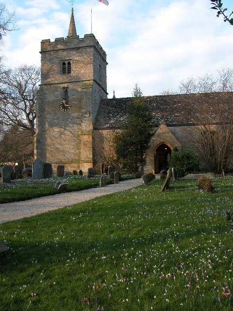 Birlingham Church. The church of St James at Birlingham. Each February the churchyard blooms with crocuses.